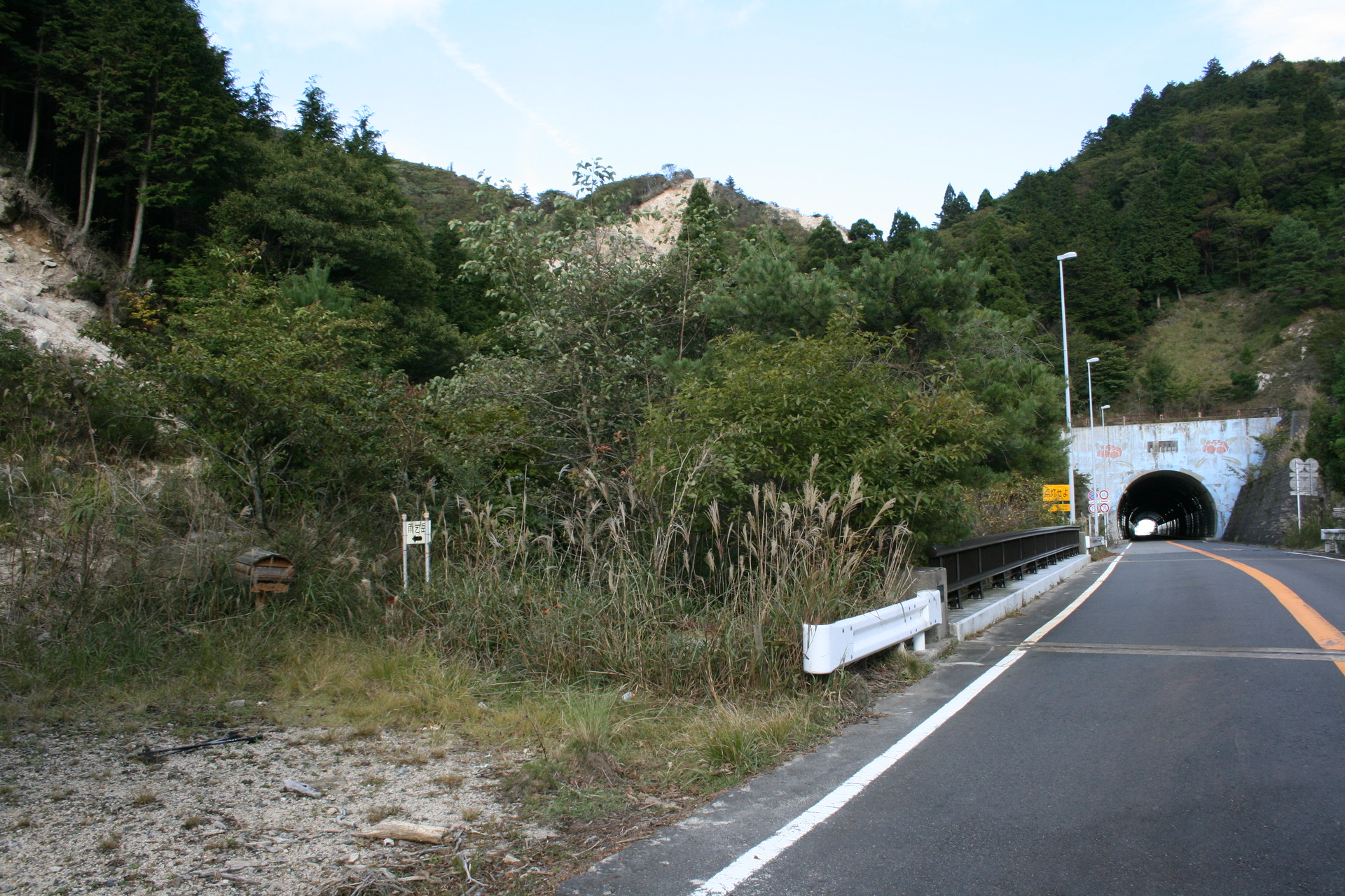 Buhei tunnel of R477 of Japan.